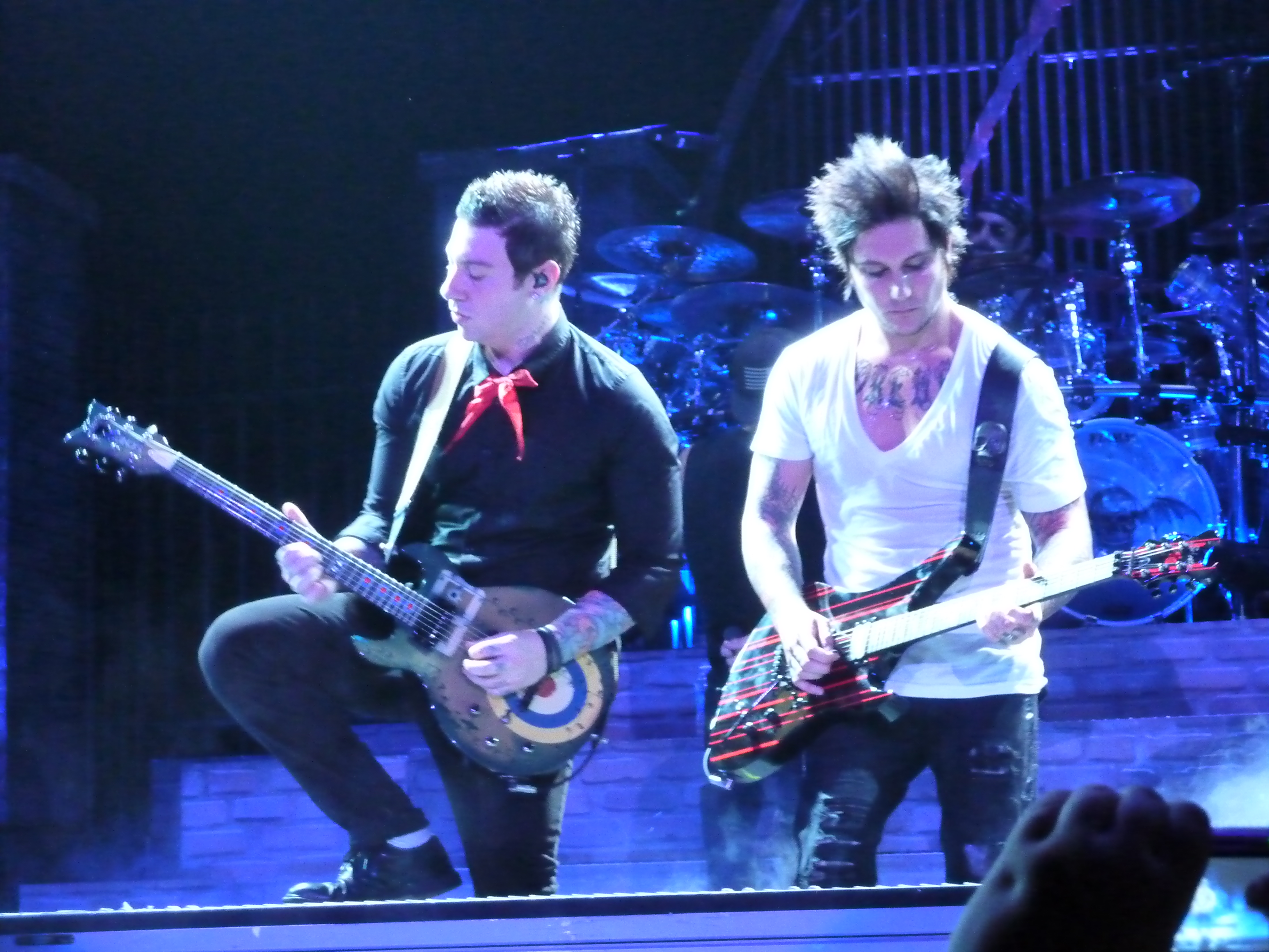 Guitarists Synyster Gates and Zacky Vengeance from Avenged Sevenfold.